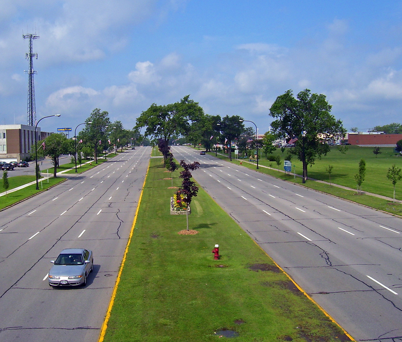 Photographed by Daniel Case 2006-07-31 from the pedestrian overpass east of Delaware Avenue.